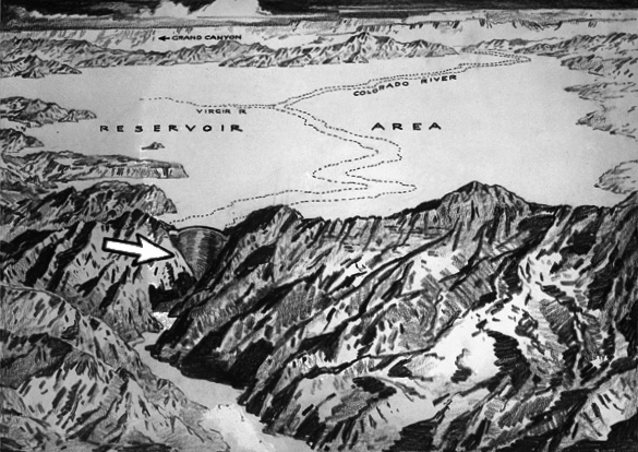 Title: Photo of a sketch of the Boulder [Hoover] Dam site, published 1921 in the Los Angeles Times